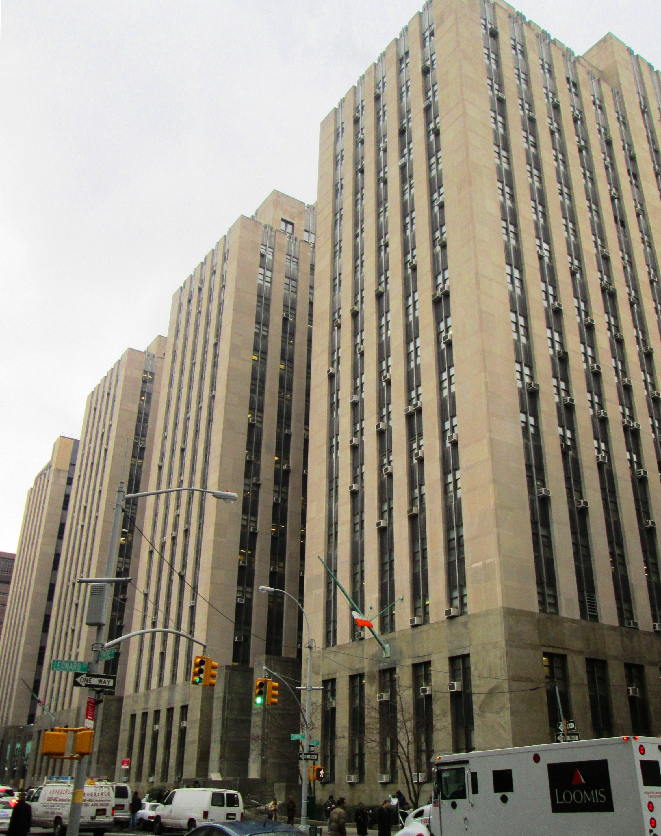 The New York City Criminal Courts Building at 100 Centre Street between Hogan Place and White Street in the Civic Center district of Manhattan, New York City, was built in 1938-1941 at the cost of $14 million and was designed by Harvey Wiley Corbett and Charles B. Meyers in the Art Moderne style. The building houses courtrooms for the Criminal and Supreme Courts, the offices of the District Attorney of New York County (Manhattan) and the Legal Aid Society, and city offices for the Police Department, Department of Correction, and Department of Probation. This view is looking north from Leonard Street, which becomes Hogan Place when it crosses Centre Street. The farthest wing of the building, on the left of the image, is the south building of the Manhattan Detention Complex, also known as "The Tombs", which connects to the court section (the two center wings) by the "Bridge of Sighs". It also connects by pedestrian bridge across White Street to the MDC's north tower, built in 1989. The interior of the MDC's part of 100 Centre Street was redesigned by the Gruzen Partnership in 1986. (Source: AIA Guide to NYC and Wikimapia)